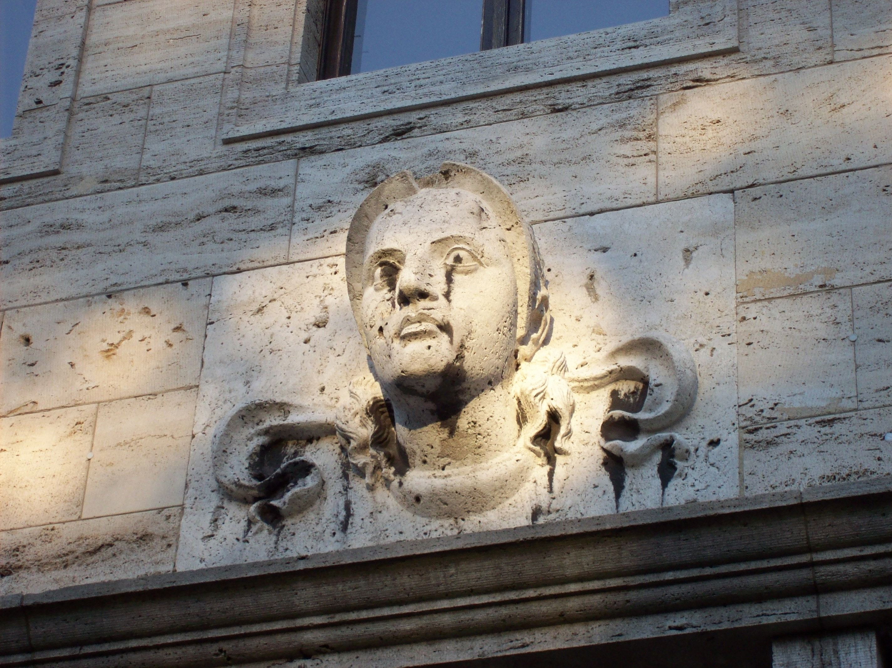 The scuplture of Arno Breker at the former diplomatic mission of Yugoslavia in Berlin